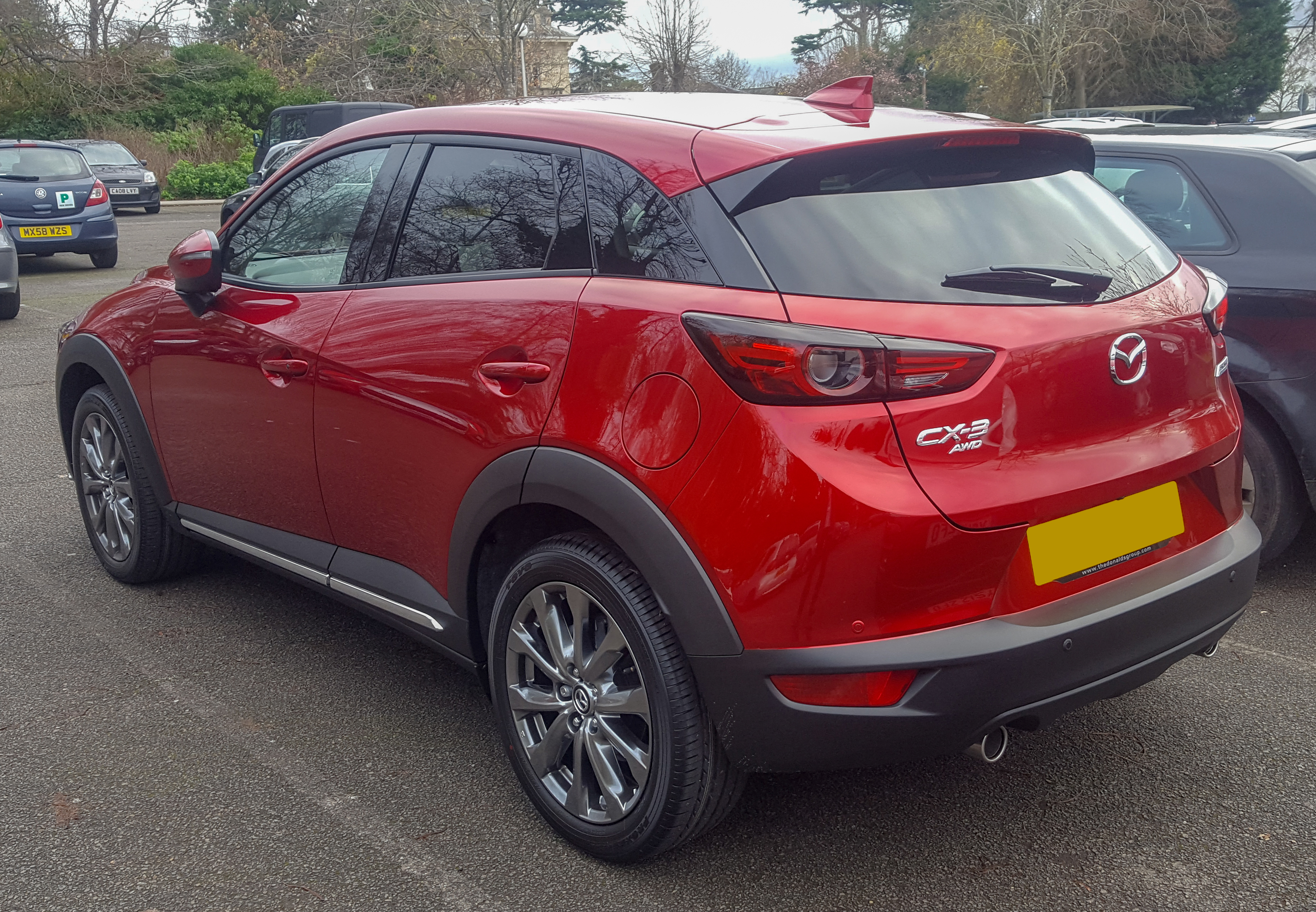 2018 Mazda CX-3 Sport Nav+ 4X4 2.0 Rear Taken in Leamington Spa